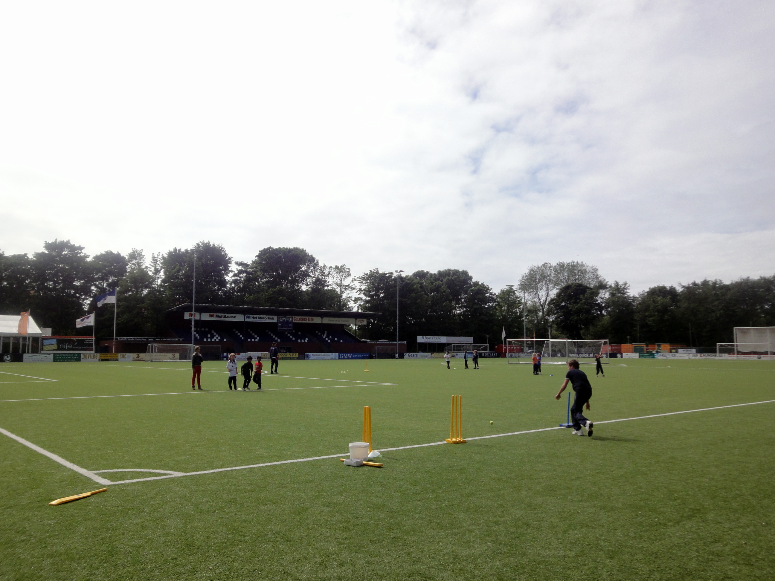 field of soccer and cricket club Quick